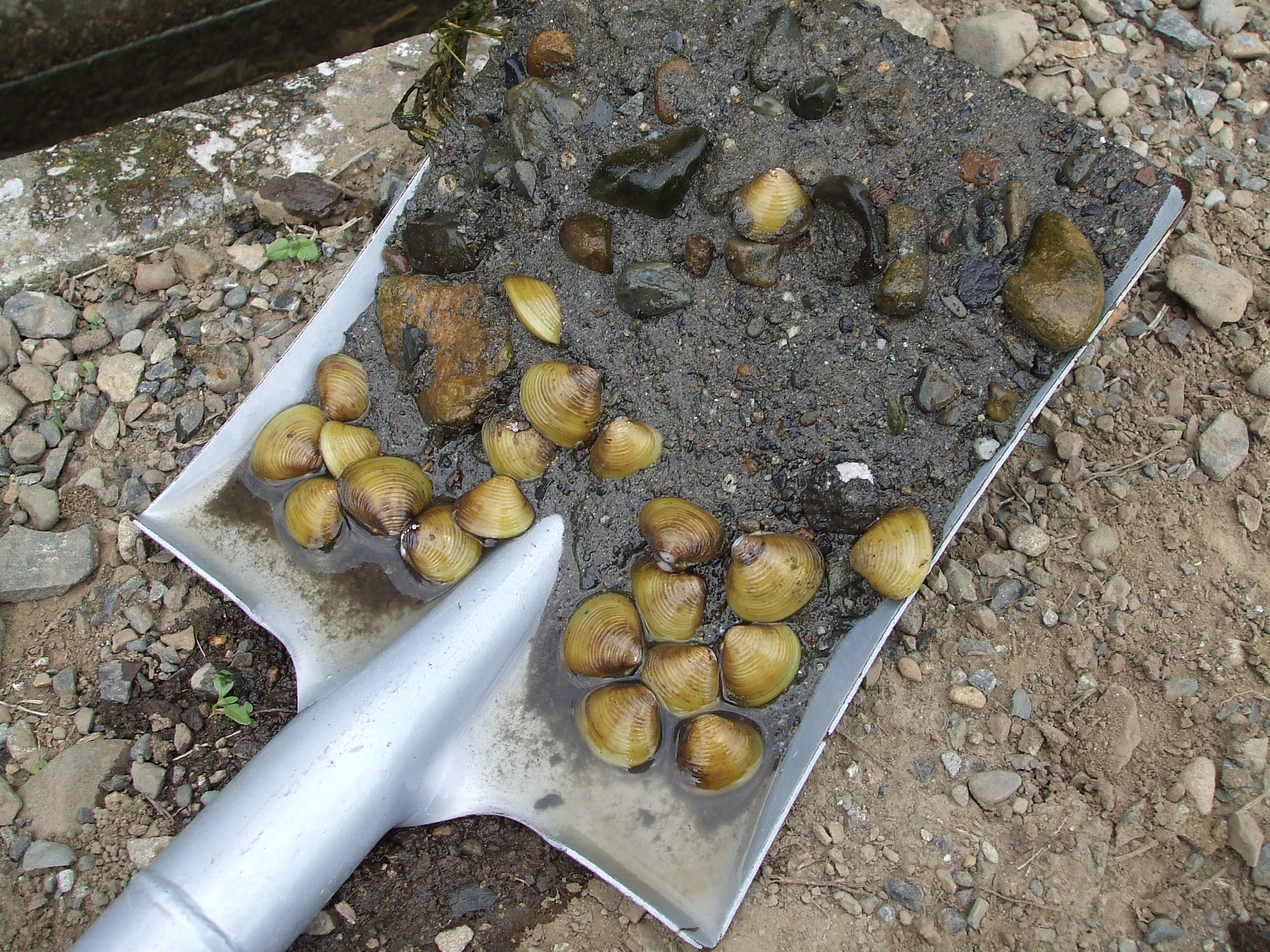 Taiwan-Corbicula Mass!!